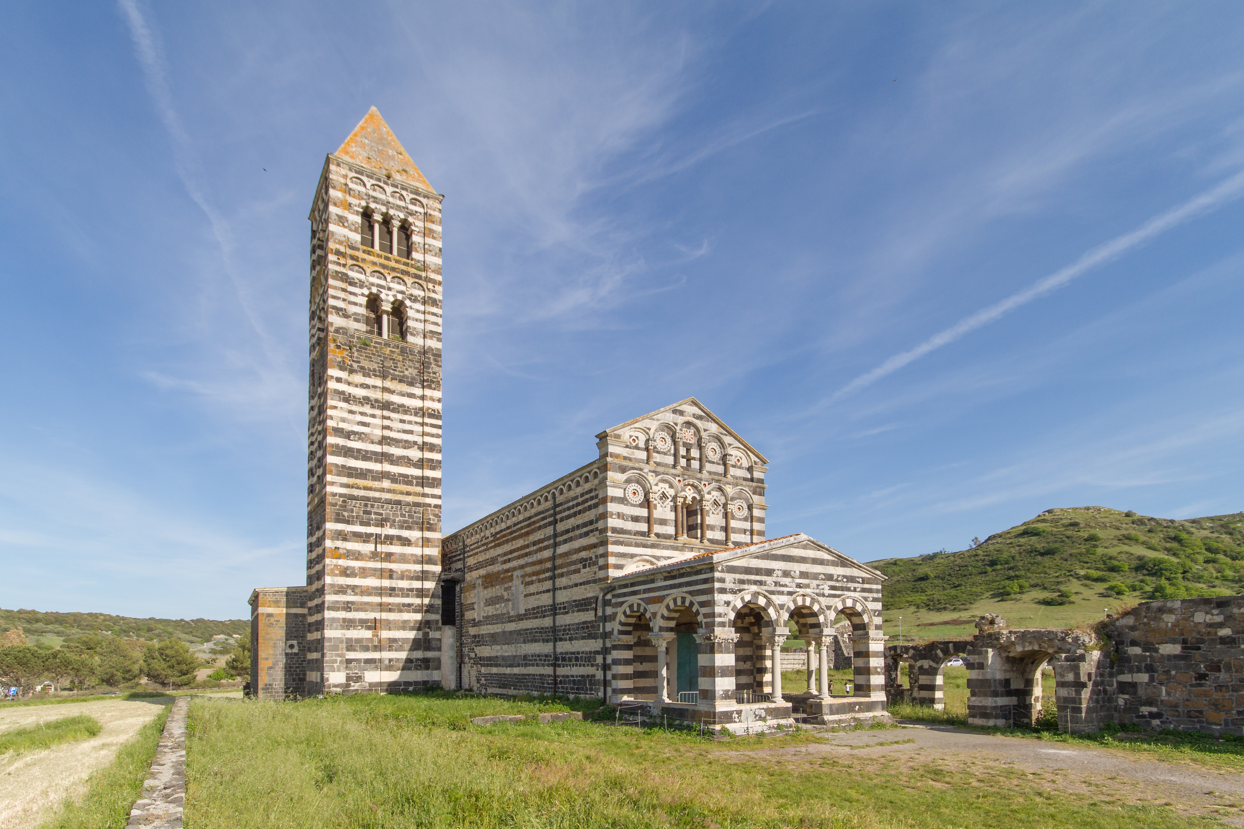 Front facade of Basilica di Saccargia